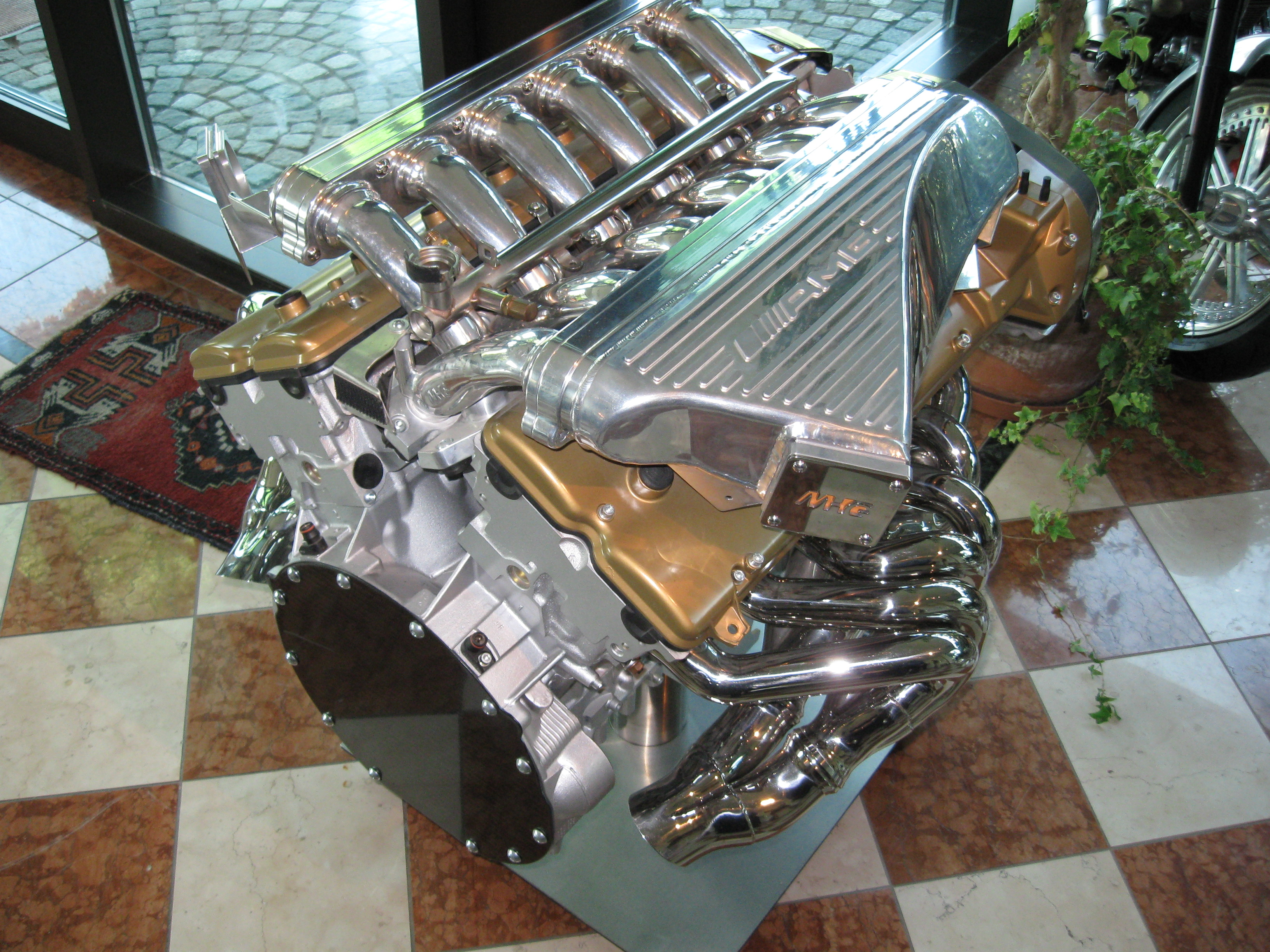 AMG Mercedes 12 cylinder engine on display at the Pagani Factory in Italy